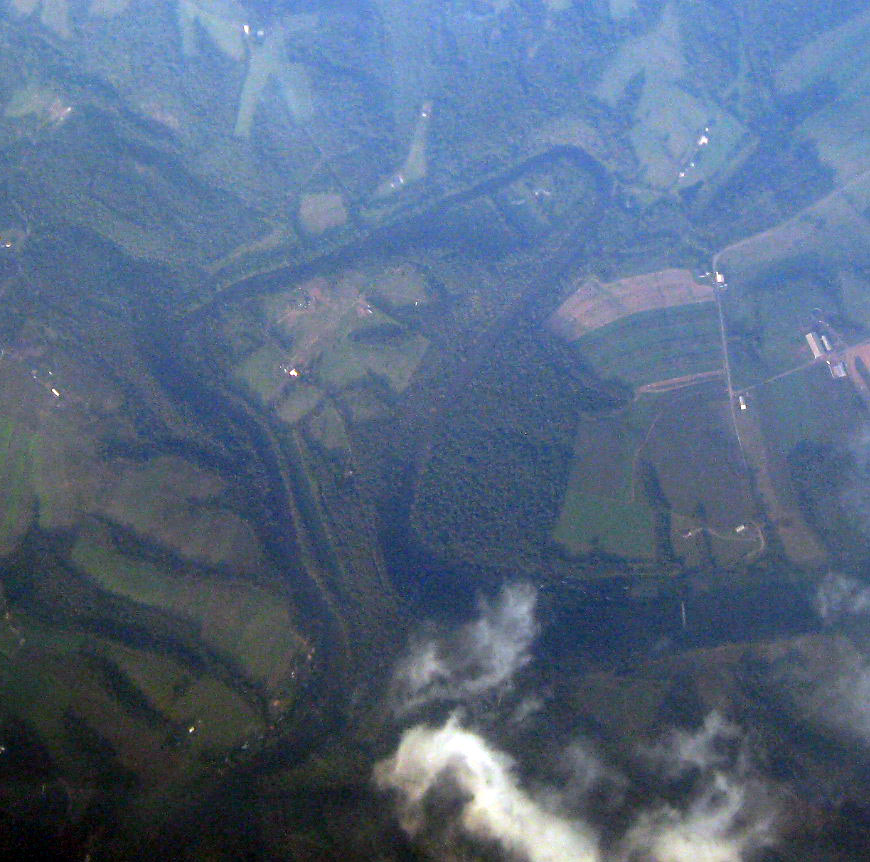 Near orthogonal air photo of a prominent meander of the Raystown Branch Juniata River near Breezewood, taken August 2010.